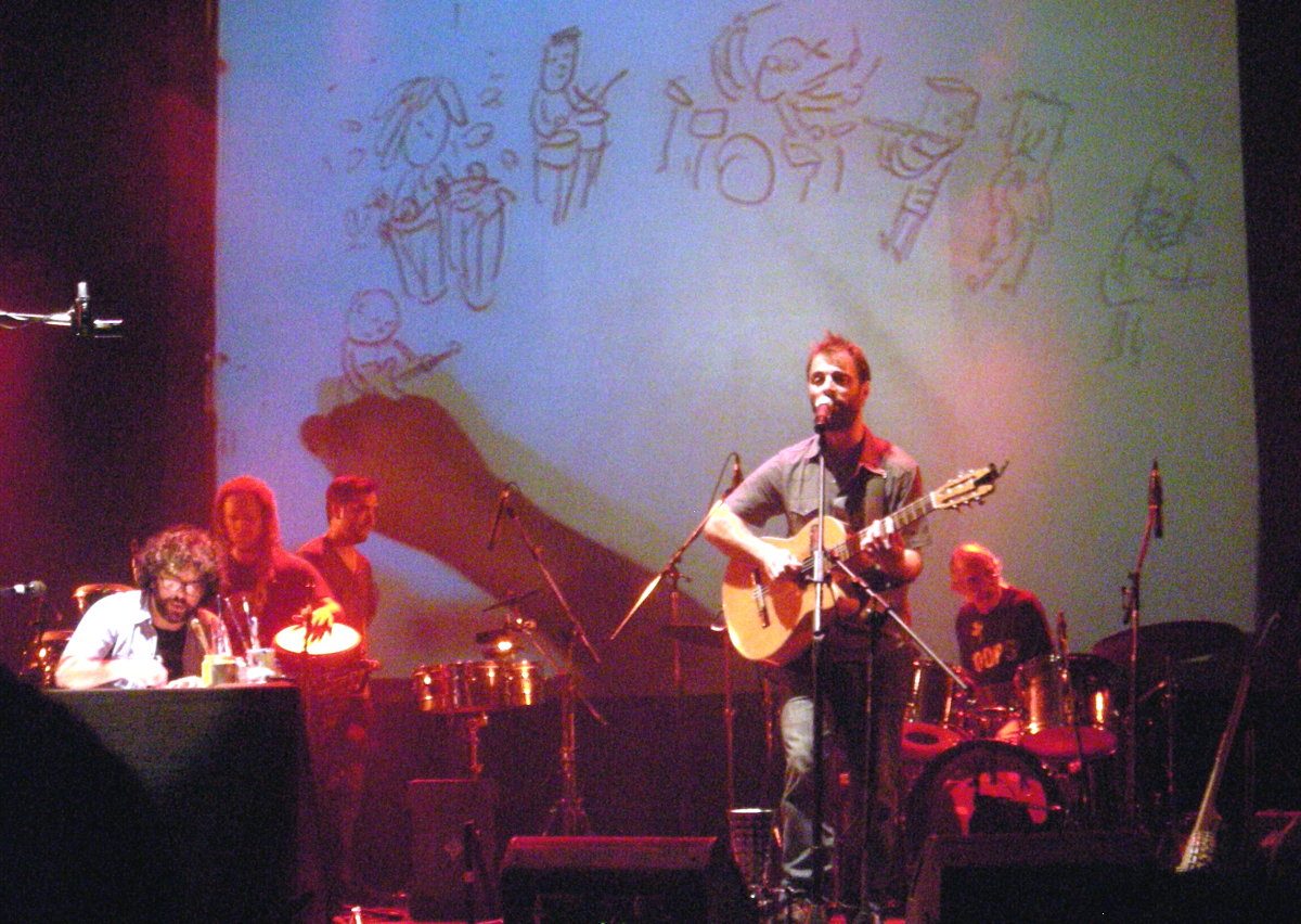 Kevin Johansen and The Nada, live at Teatro Comedia, Rosario, Argentina. Ricardo "Liniers" Siri (cartoonist, left), Kevin Johansen (singer and guitar, center) and Enrique "Zurdo Roizner (drums, right)